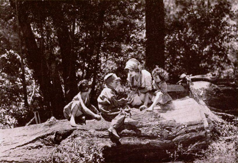 Still from the American film Salomy Jane (1914) with Beatriz Michelena, facing page 106 of the 1915 edition of the Bret Harte novel. The child actors are not identified. Caption: "Tell us jest one fairy tale, S'lomy."